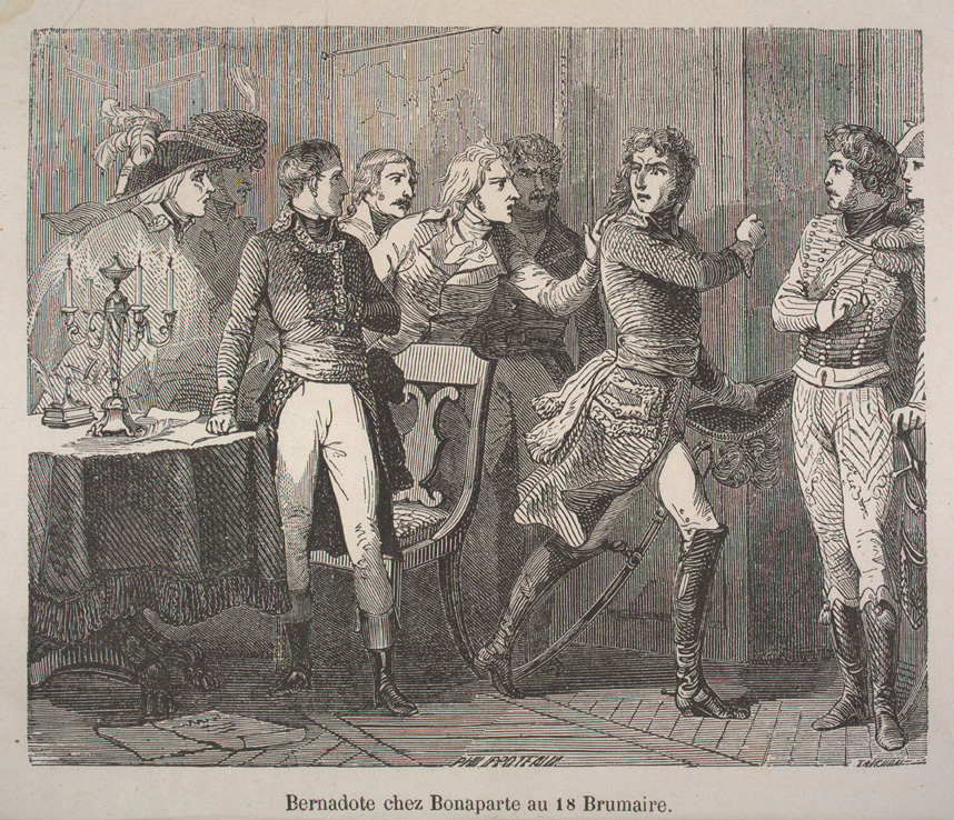 Lithograph of Brumaire 18